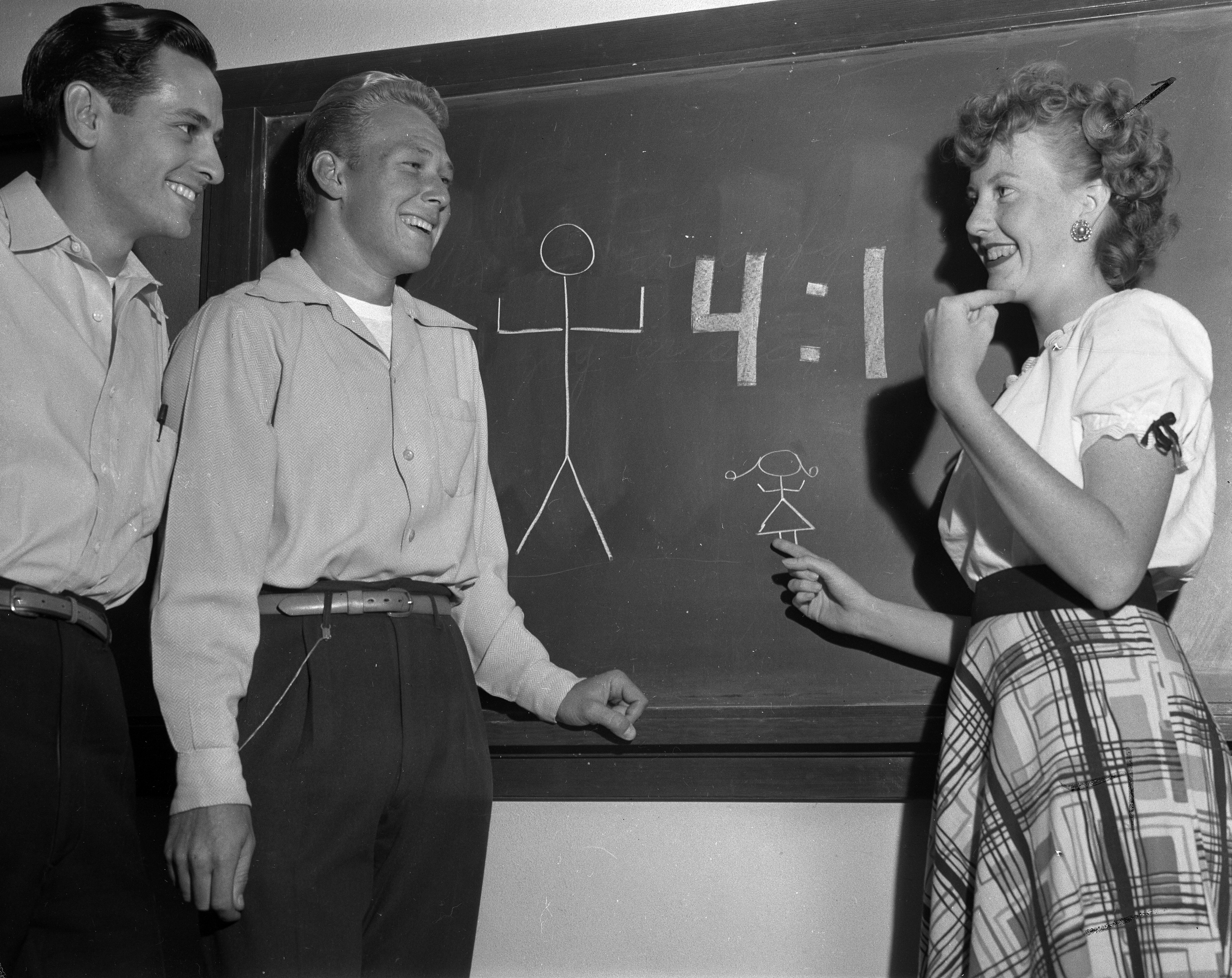 Title: Shirley Mae Dyson illustrates on blackboard that there are four men for every girl at Glendale College, Calif., 1948 Published caption:ILLUSTRATING HER POINT -- Shirley Mae Dyson illustrates on Glendale College blackboard her point that there are four men for every girl on campus and that the school has good reason to add vocational studies to coeds' curriculum. Listening to her argument and apparently agreeing are Dick Swart, left, and Bob Burnett. Publication:Los Angeles Times Publication date:May 6, 1948 Subjects: Community college students--California--Los Angeles County Source:Los Angeles Times photographic archive, UCLA Library Note about non-renewal of copyright: [1] Category:Images of California